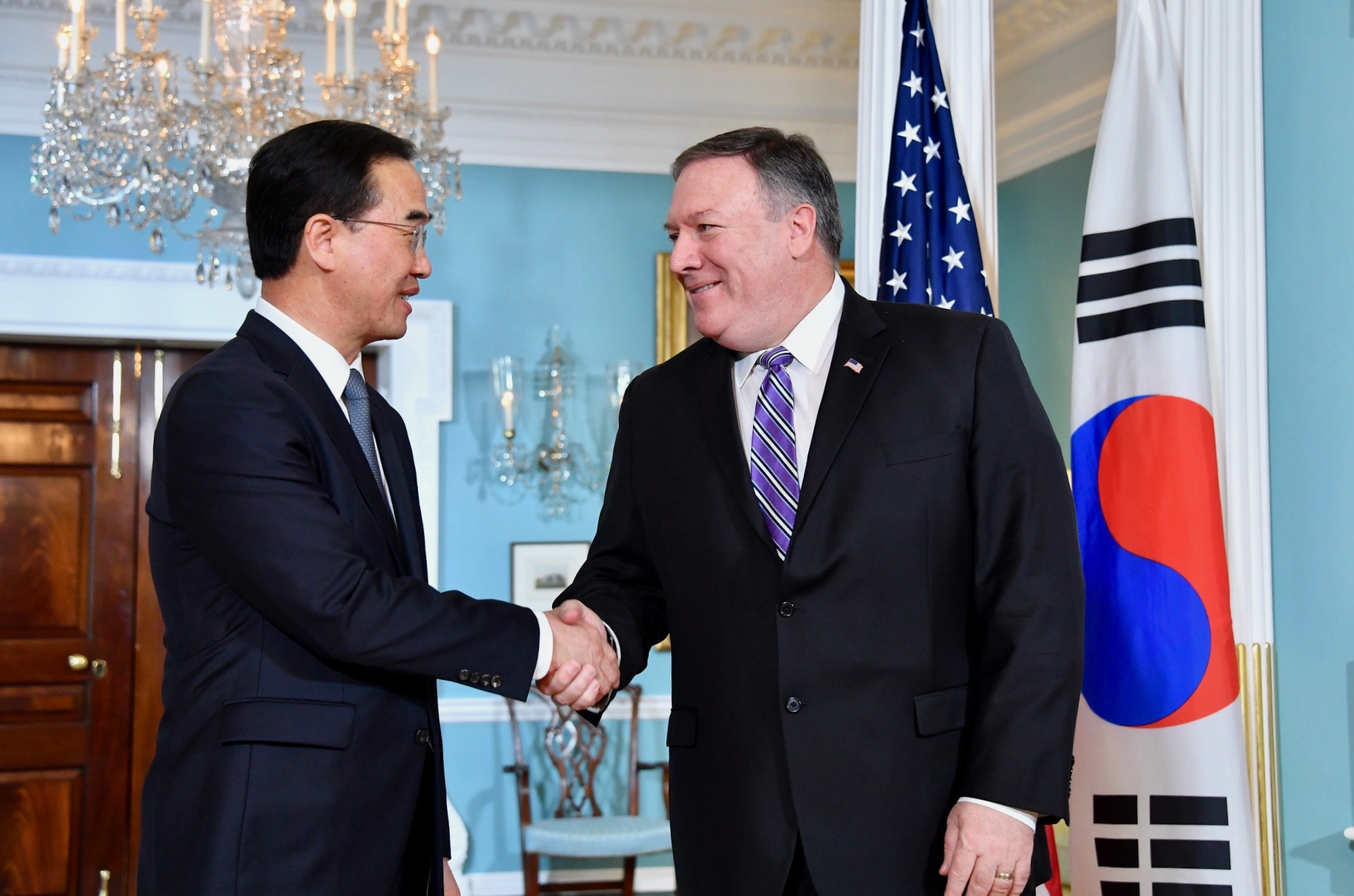 U.S. Secretary of State Michael R. Pompeo welcomes Republic of Korea Minister of Unification Cho Myoung-gyon to the U.S. Department of State in Washington, D.C.